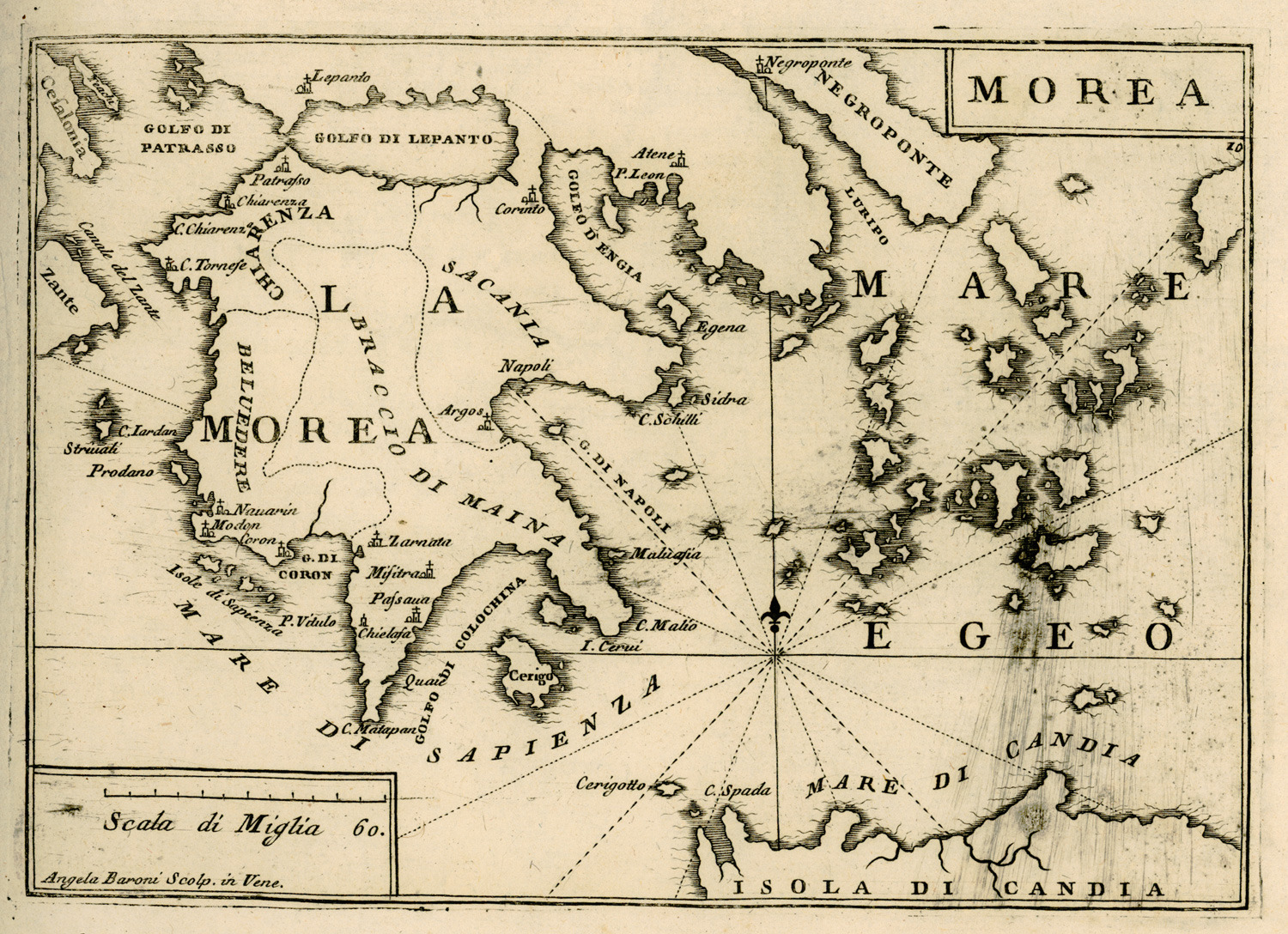 Vincenzo Coronelli - Repubblica di Venezia p. IV. Citta, Fortezze, ed altri Luoghi principali dell' Albania, Epiro e Livadia, e particolarmente i posseduti da Veneti descritti e delineati dal p. Coronelli, Venice, 1688.